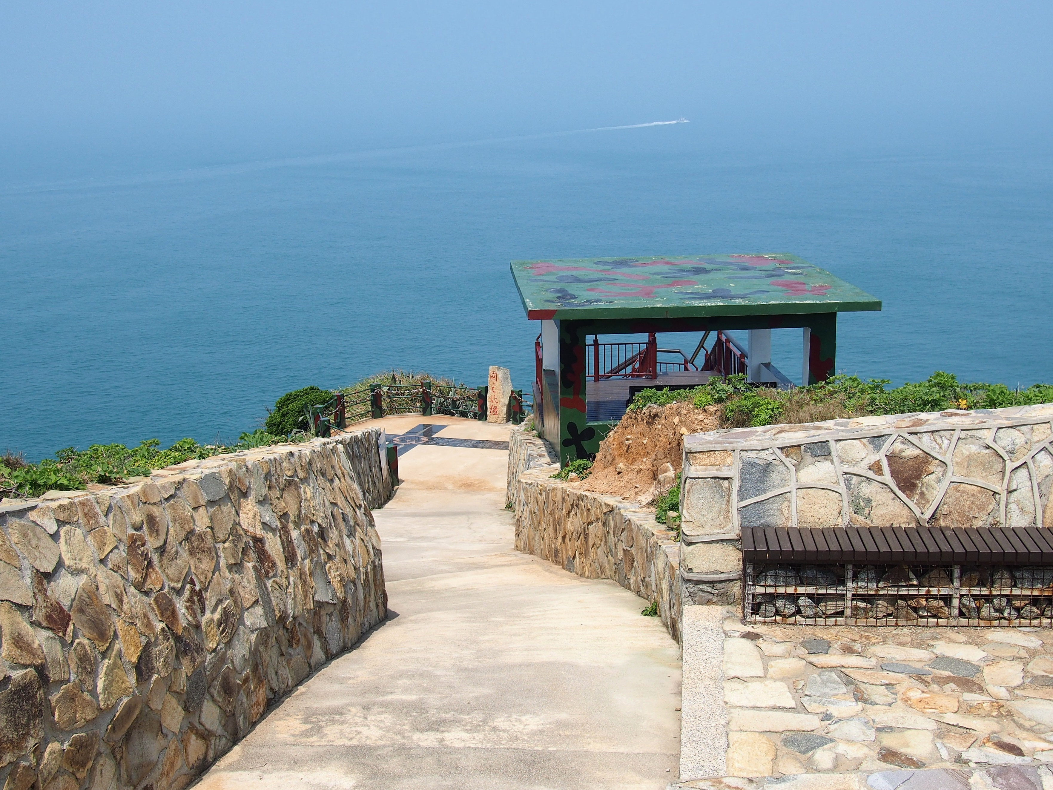 Northernmost Frontier - 2016.04